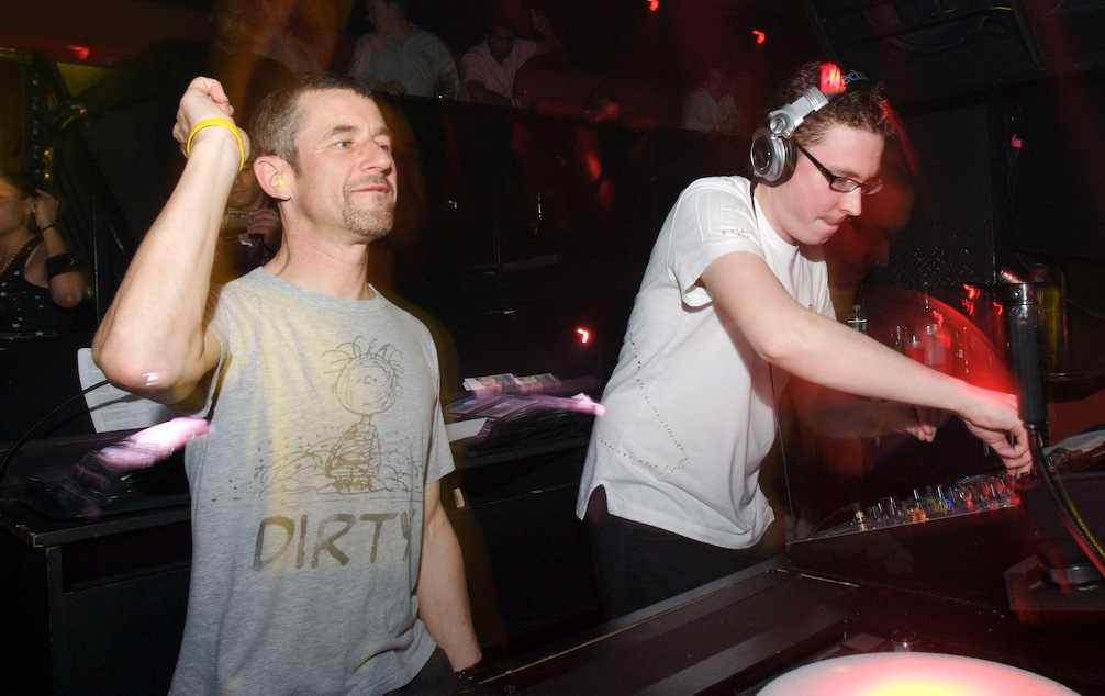 Tony McGuinness and Paavo Siljamäki of Above & Beyond at the Pacha club in New York.